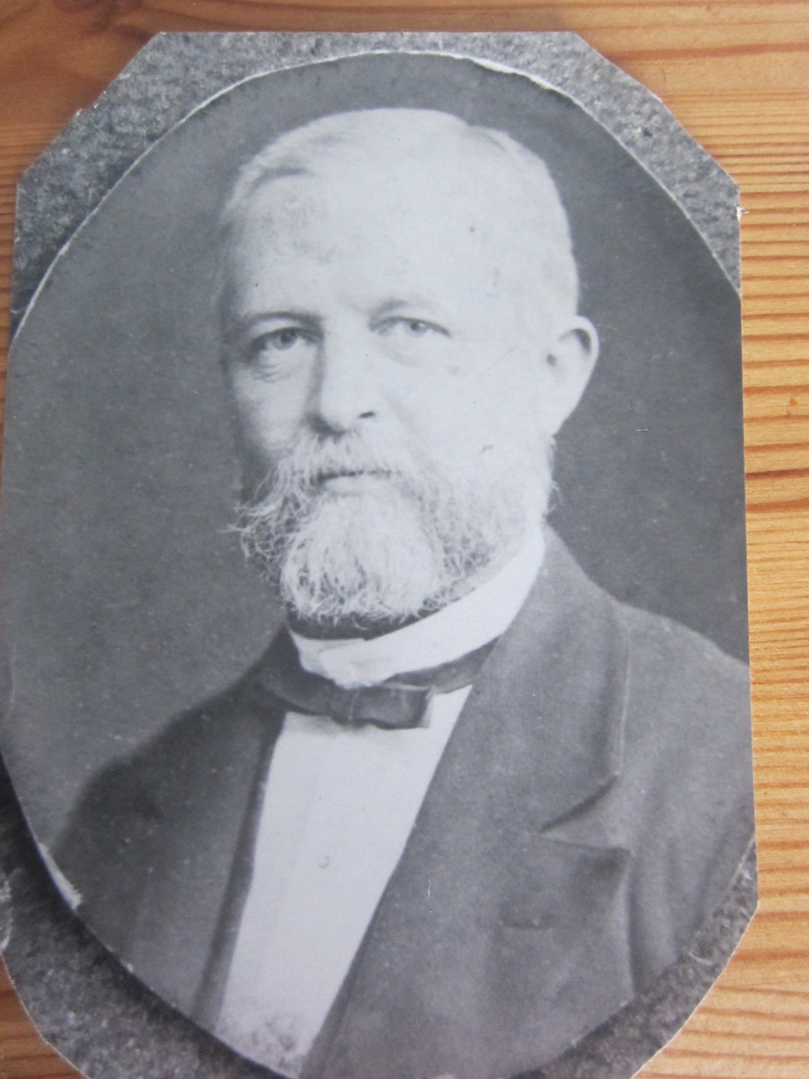 Photo of Paul Ludwig Gottburgsen